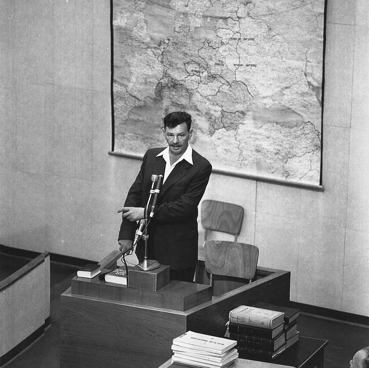 Witness Yitzhak Zuckerman testifies for the prosecution during the trial of Adolf Eichmann. [Information from USHMM: [Photograph #65276].